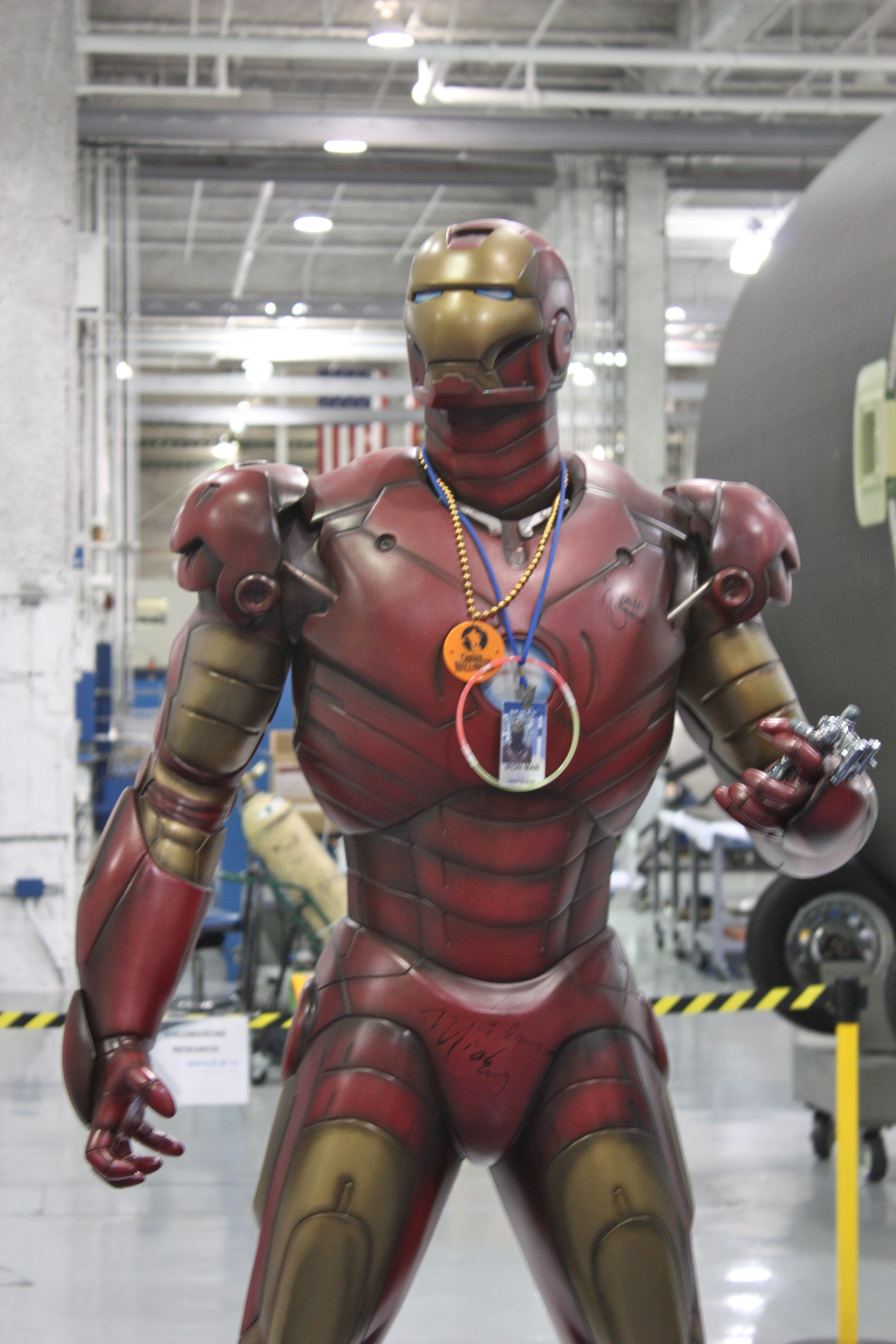 This factory was used on the Ironman Movie